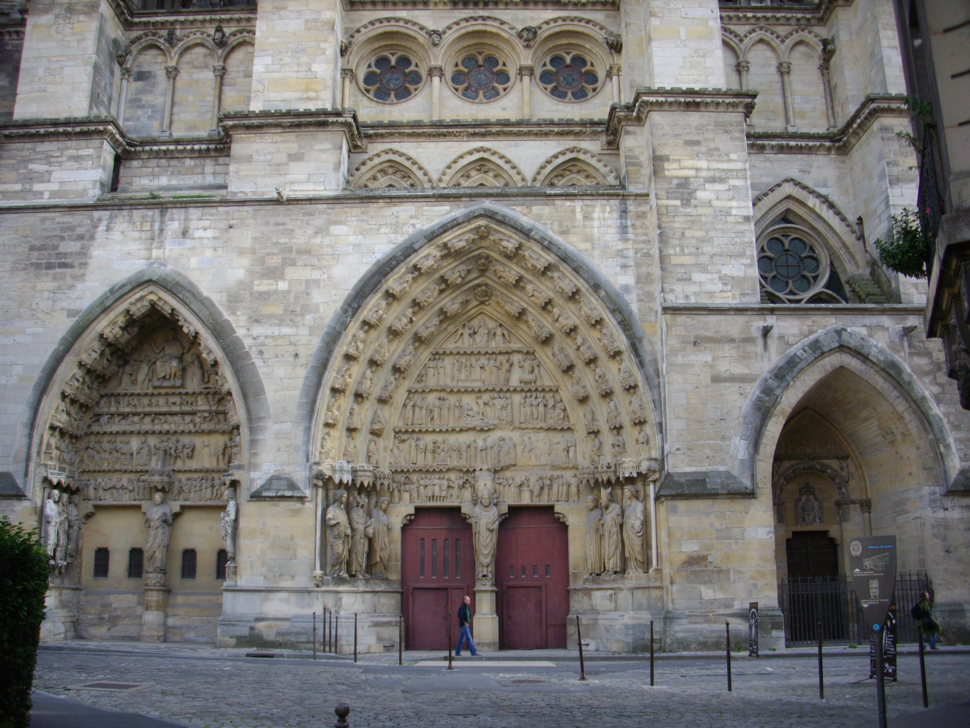 Northern transept of Our Lady cathedral of Reims (Marne, France), portals .